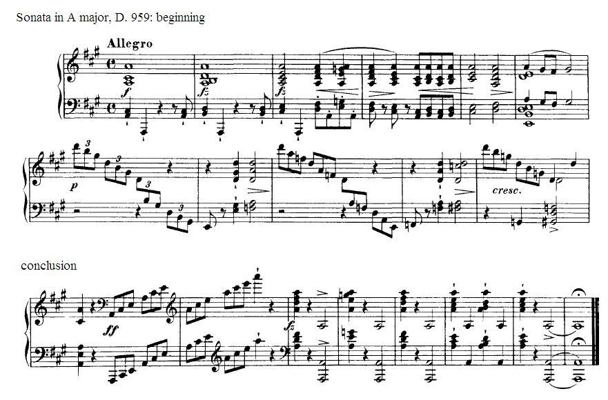 Opening and ending of the sonata in score.